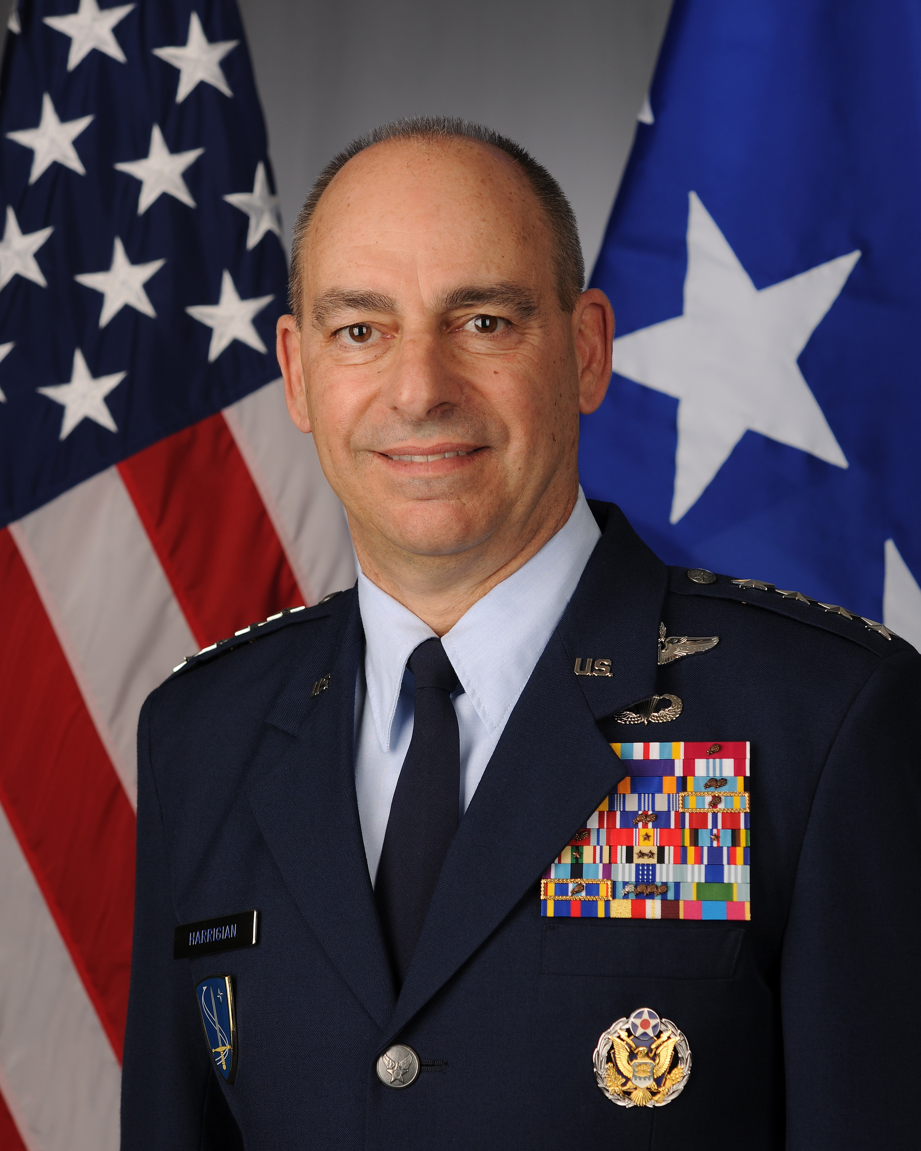 Gen. Jeffrey L. Harrigian